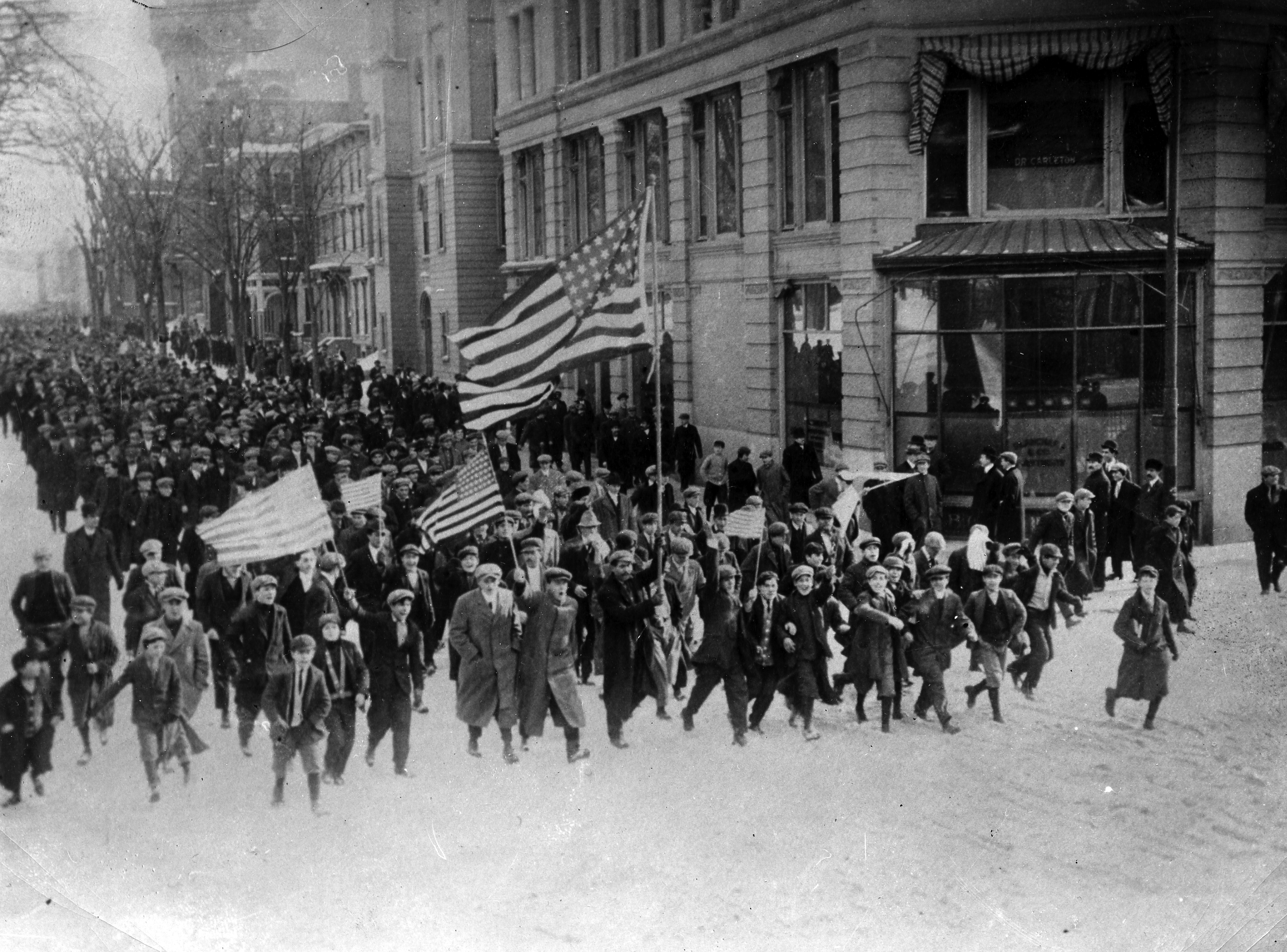 Strikers march down street in Lawrence, Massachusetts during the 1912 strike.